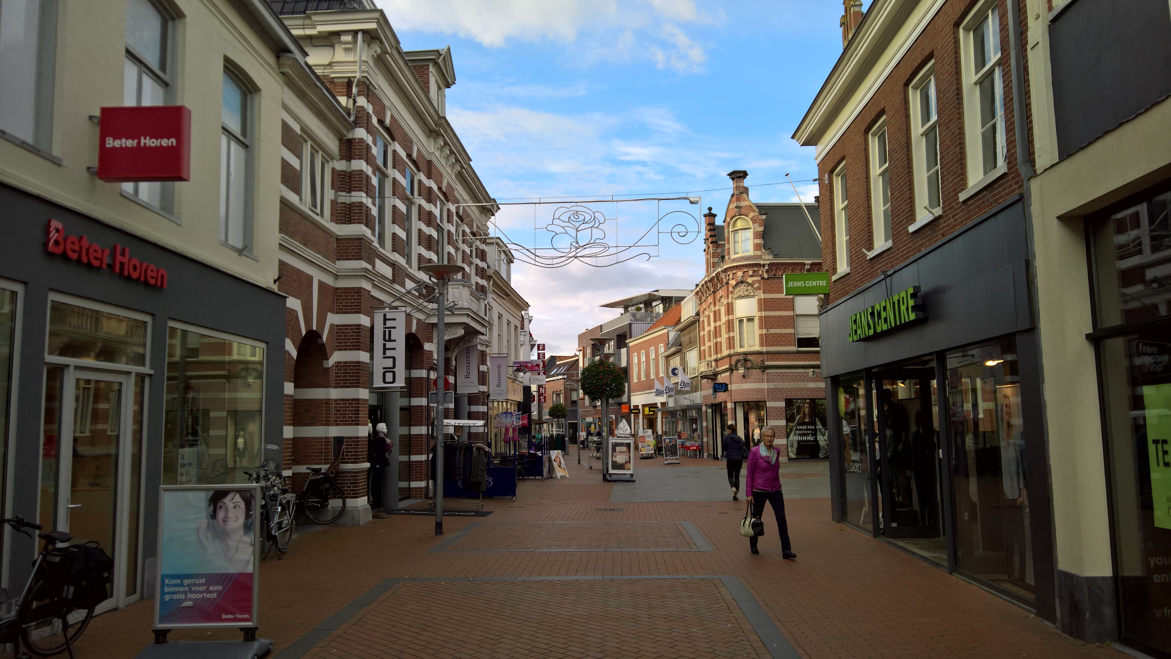 The Langestraat, the main shopping street of the City 🏙 of Winschoten.